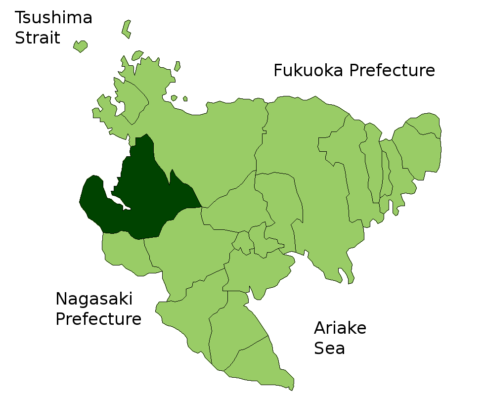 Location Map of Imari in Saga Prefecture, Japan